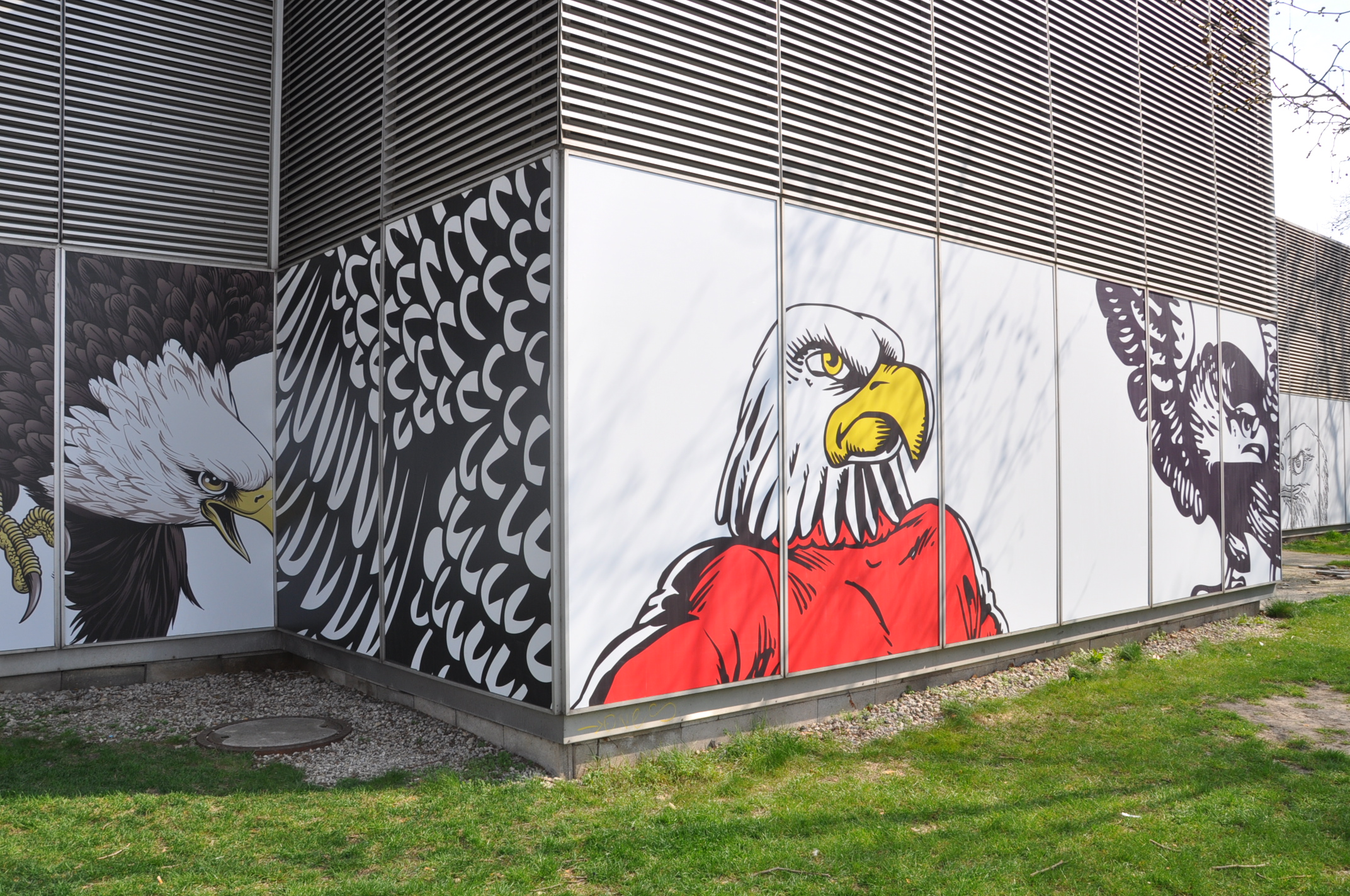 Kunsthalle Wien Karlsplatz